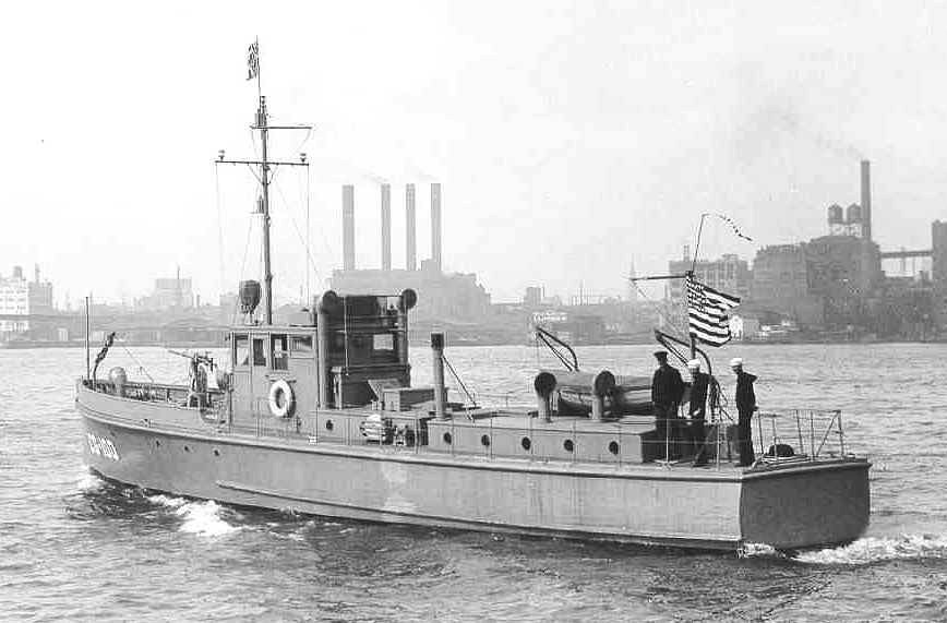 US Coast Guard 75 foot patrol boat CG-100